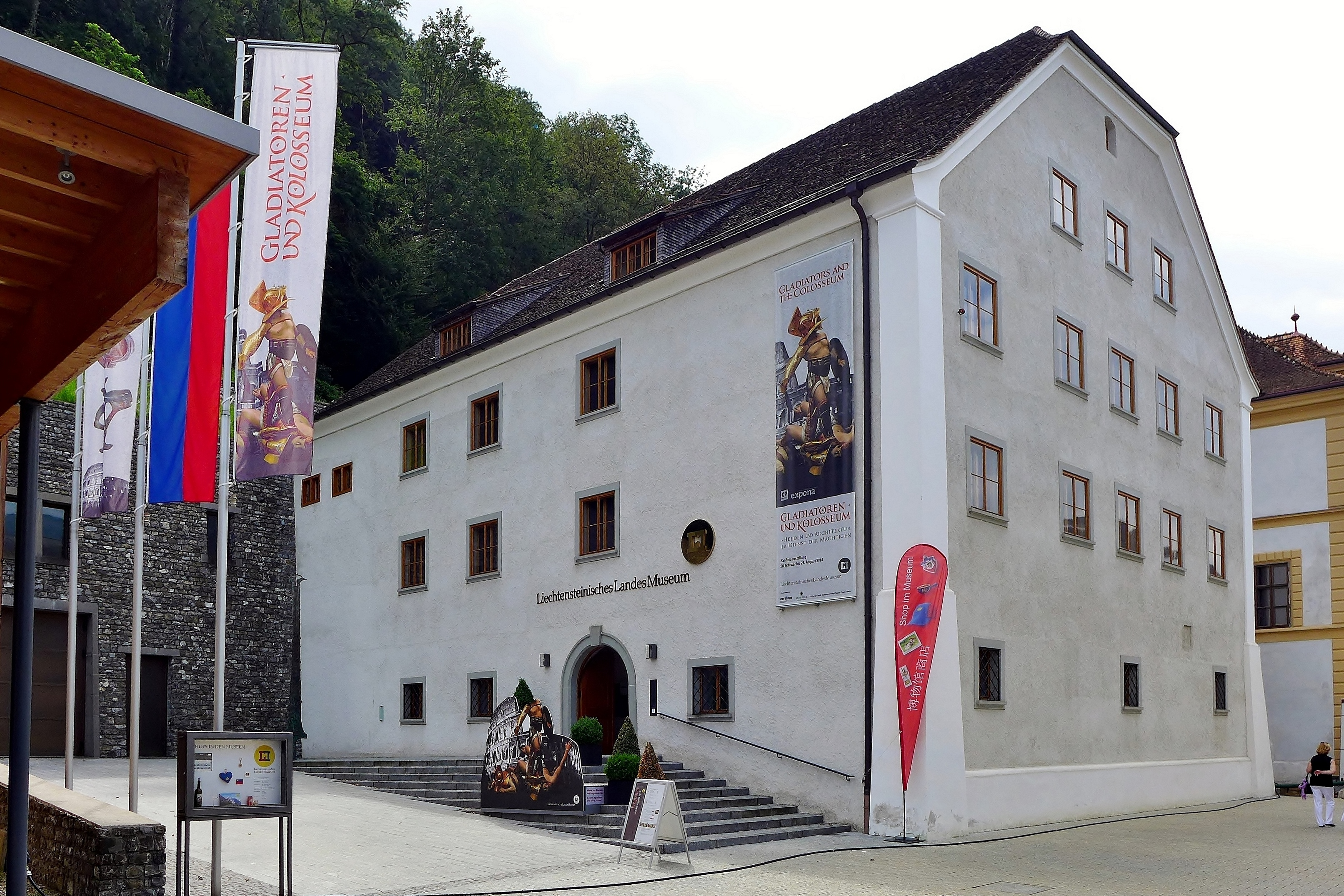 View of the Liechtensteinisches Landesmuseum, Städtle, Vaduz, Liechtenstein.